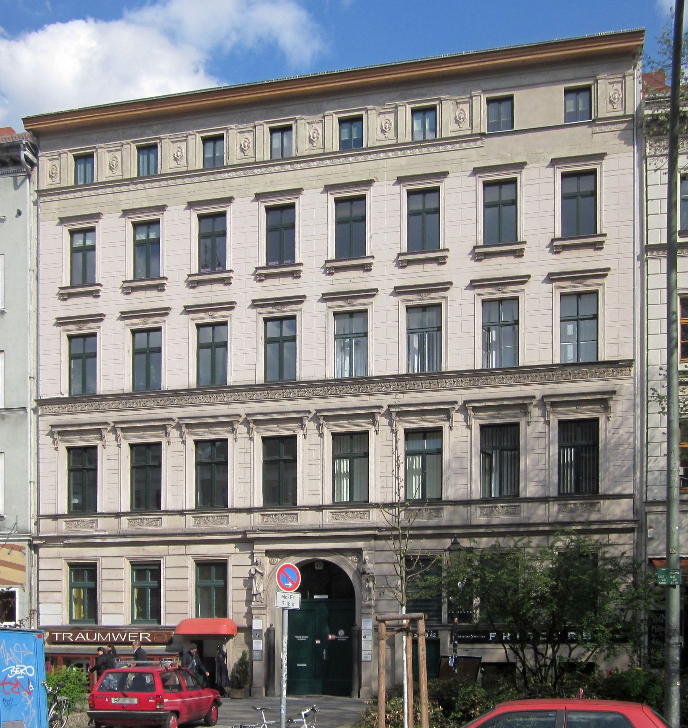 Residential building Mehringdamm No. 43 in Berlin-Kreuzberg. The house was built in 1859 by Strauch. It has been designated a historic landmark. The house is also part of the protected historic buildings area Quartier Riehmers Hofgarten.